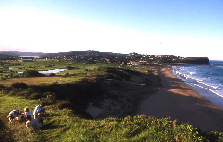 beach, sydney